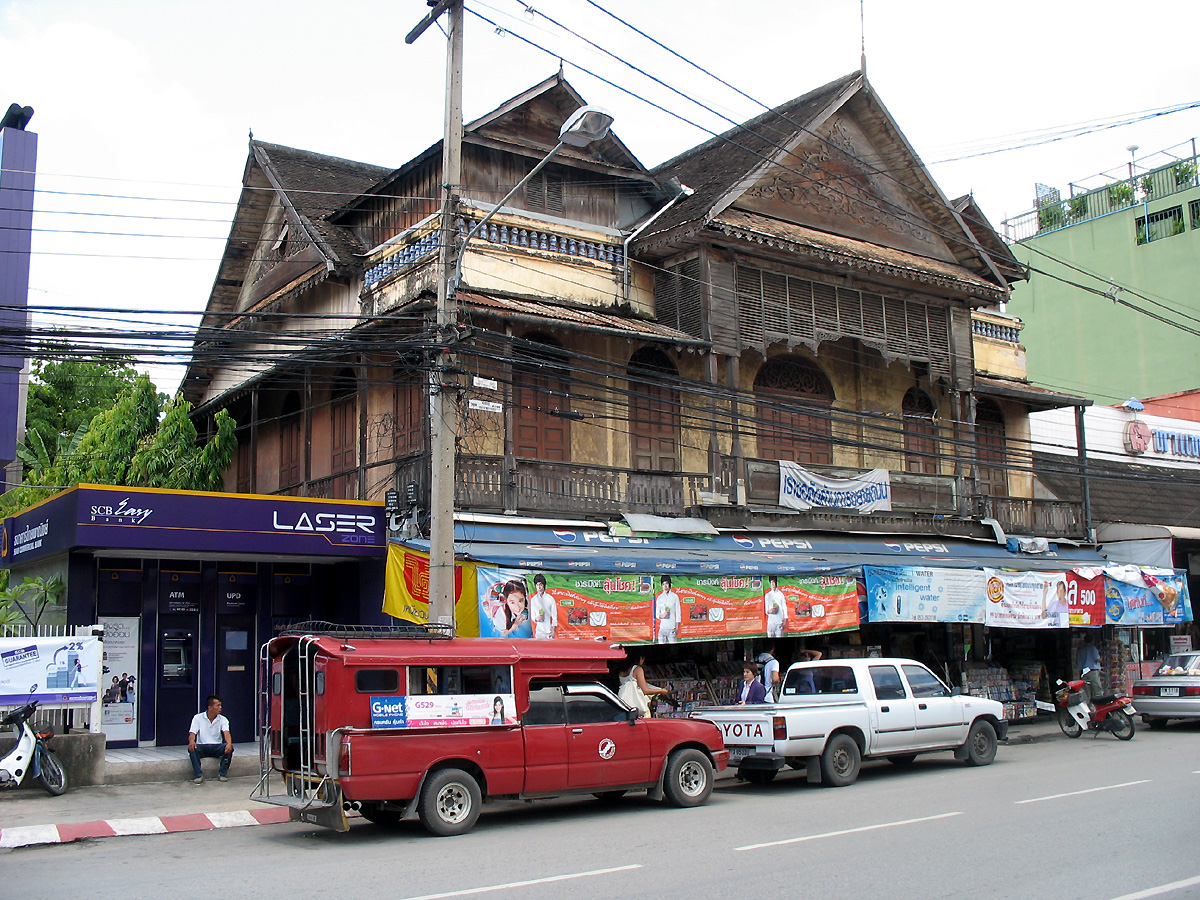 Traditional wooden house in Chiang Mai city